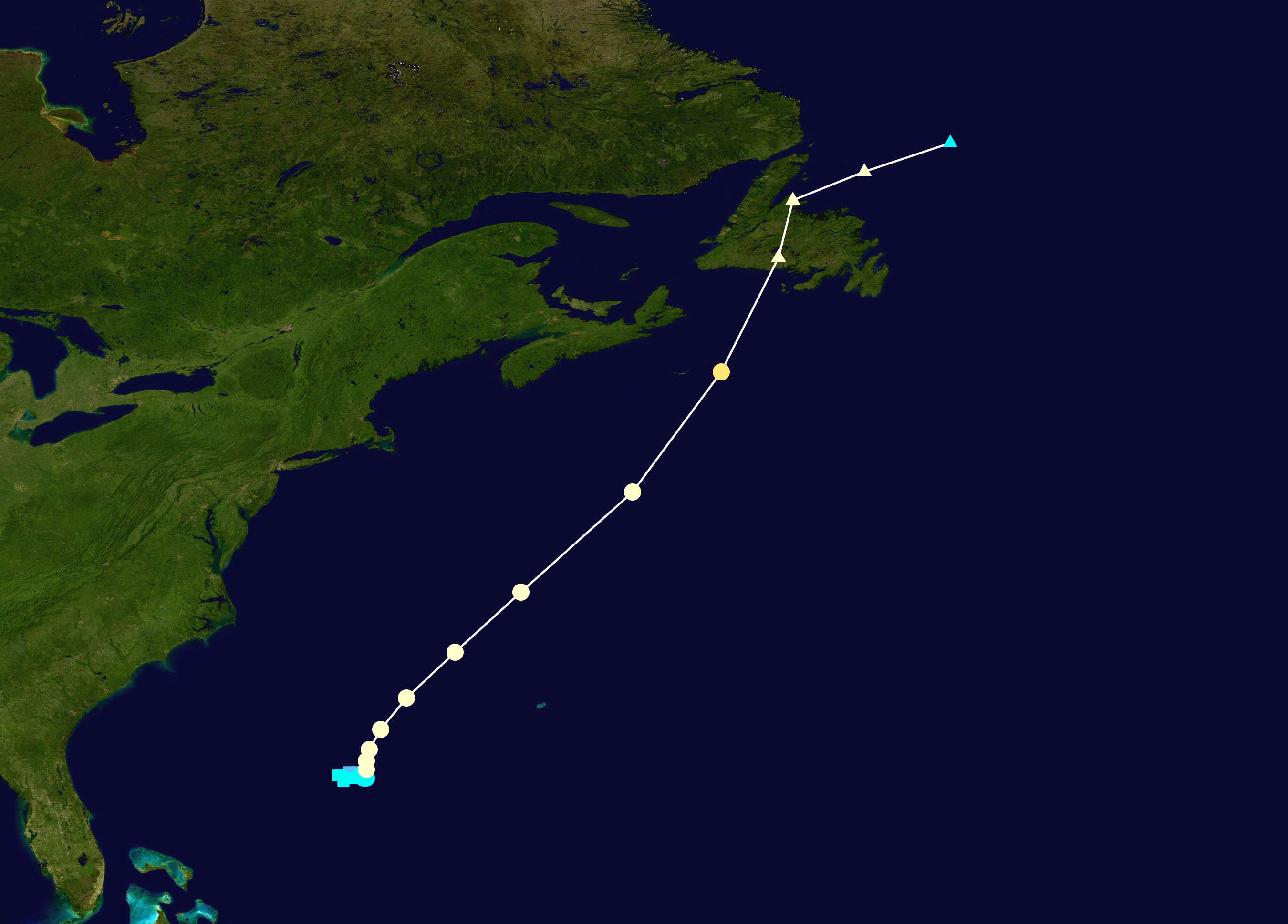 Track map of Hurricane Michael of the 2000 Atlantic hurricane season. The points show the location of the storm at 6-hour intervals. The colour represents the storm's maximum sustained wind speeds as classified in the Saffir–Simpson scale (see below), and the shape of the data points represent the nature of the storm, according to the legend below. Saffir–Simpson scale Tropical depression≤38 mph≤62 km/h Category 3111–129 mph178–208 km/h Tropical storm39–73 mph63–118 km/h Category 4130–156 mph209–251 km/h Category 174–95 mph119–153 km/h Category 5≥157 mph≥252 km/h Category 296–110 mph154–177 km/h Unknown Storm type Tropical cyclone Subtropical cyclone Extratropical cyclone / Remnant low / Tropical disturbance